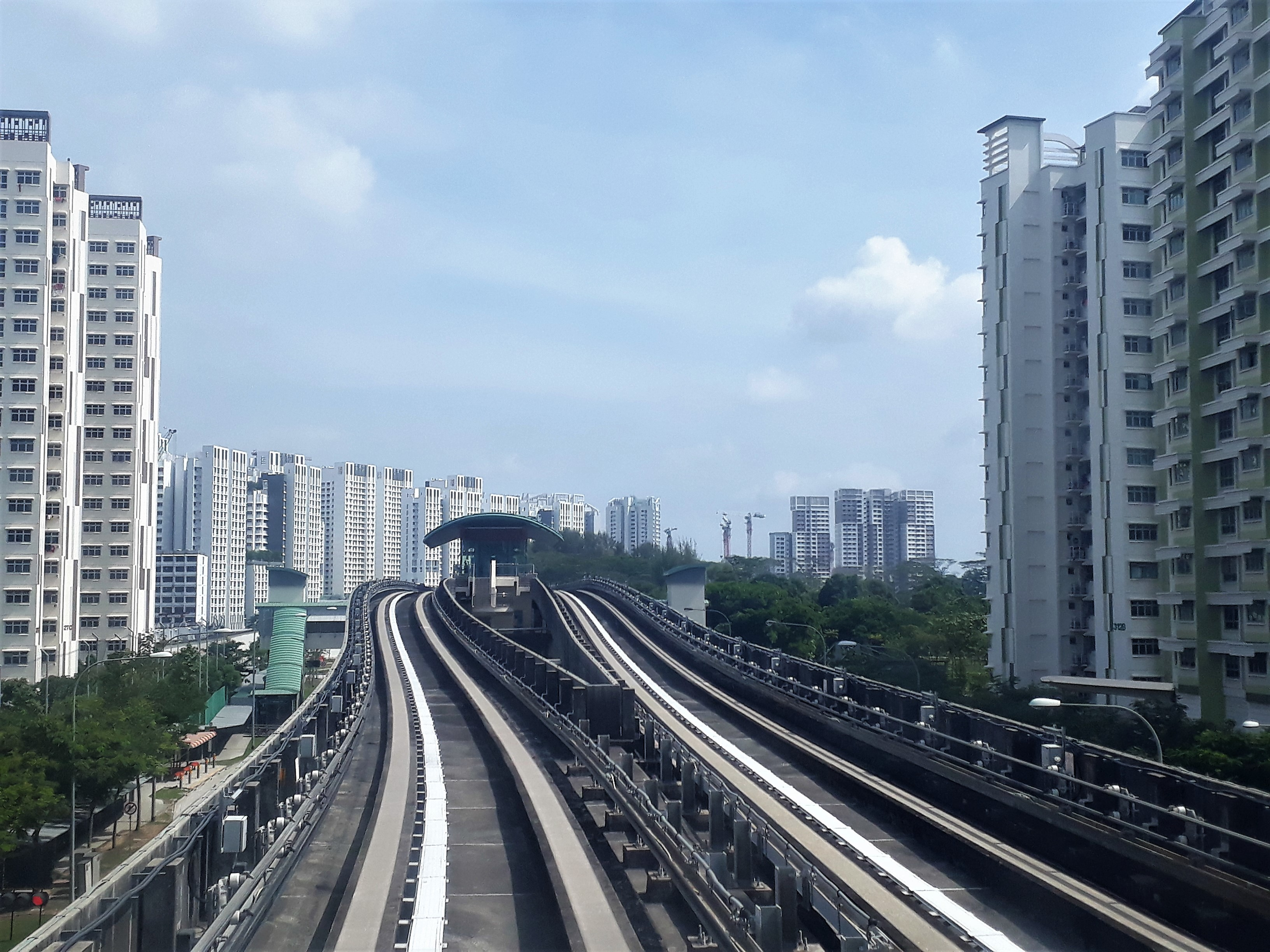 Exterior of Nibong